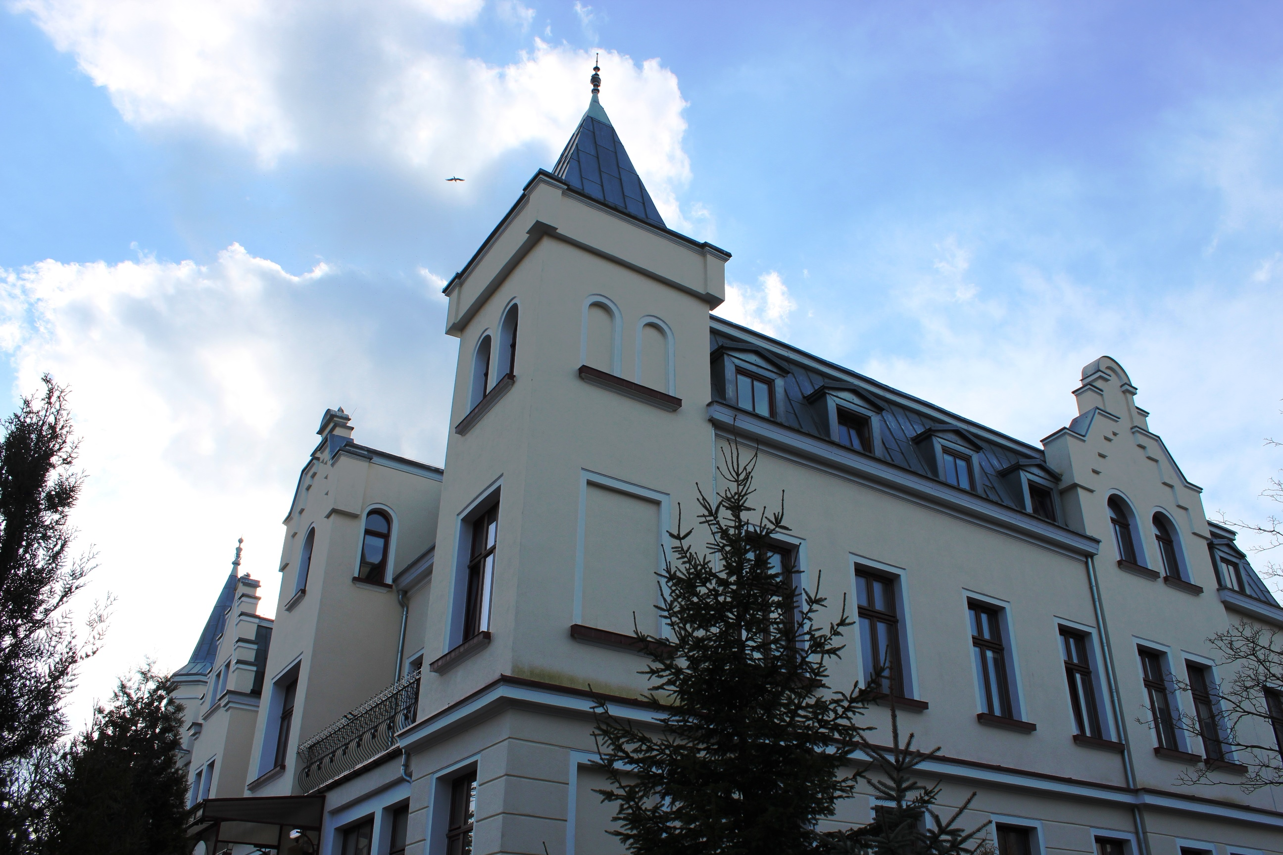 Mewa I Sanatorium in Kołobrzeg - pavilion A